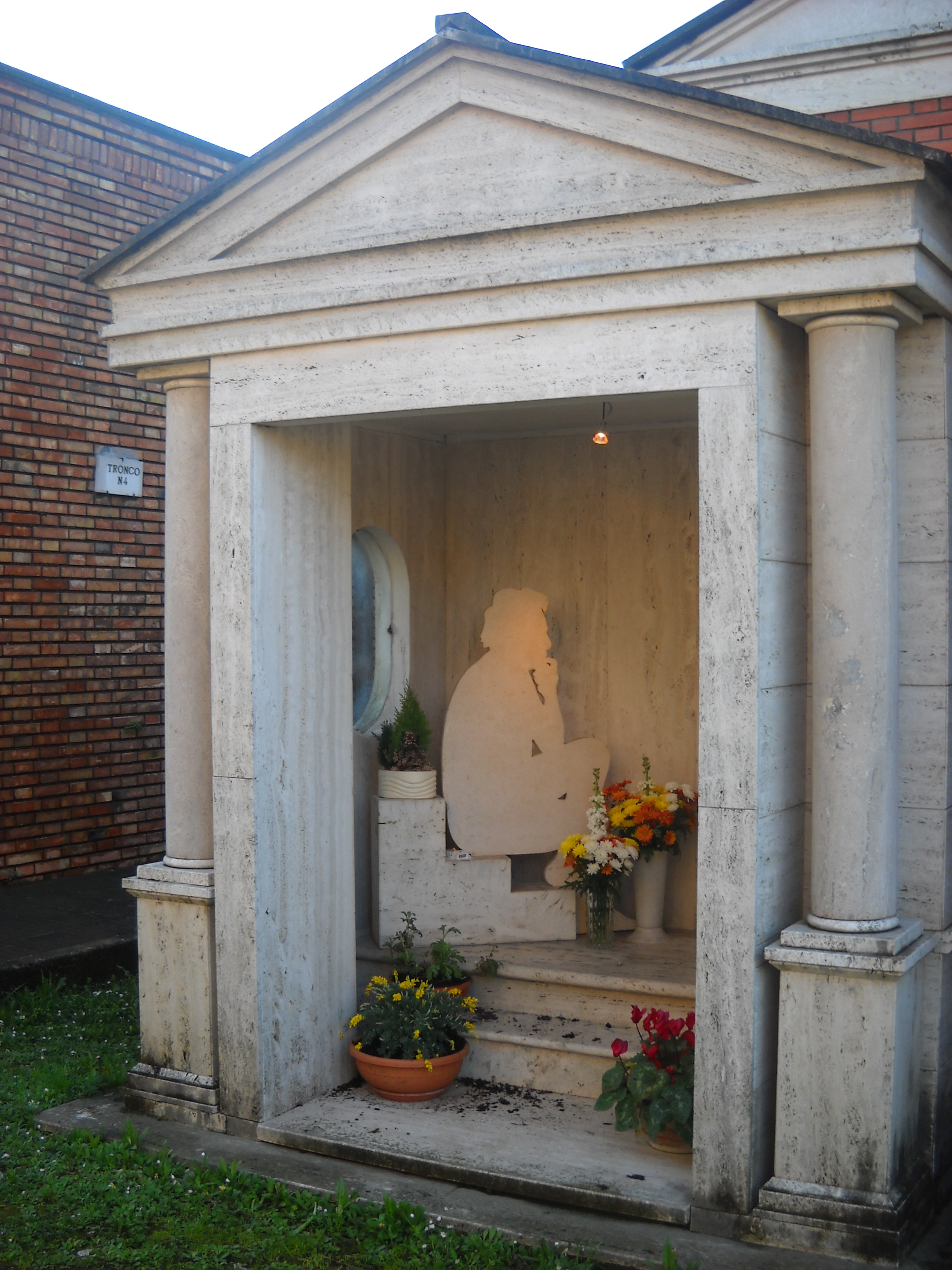 The tomb of the italian actor Ugo Tognazzi, buried in the cemetery of Velletri, Italy